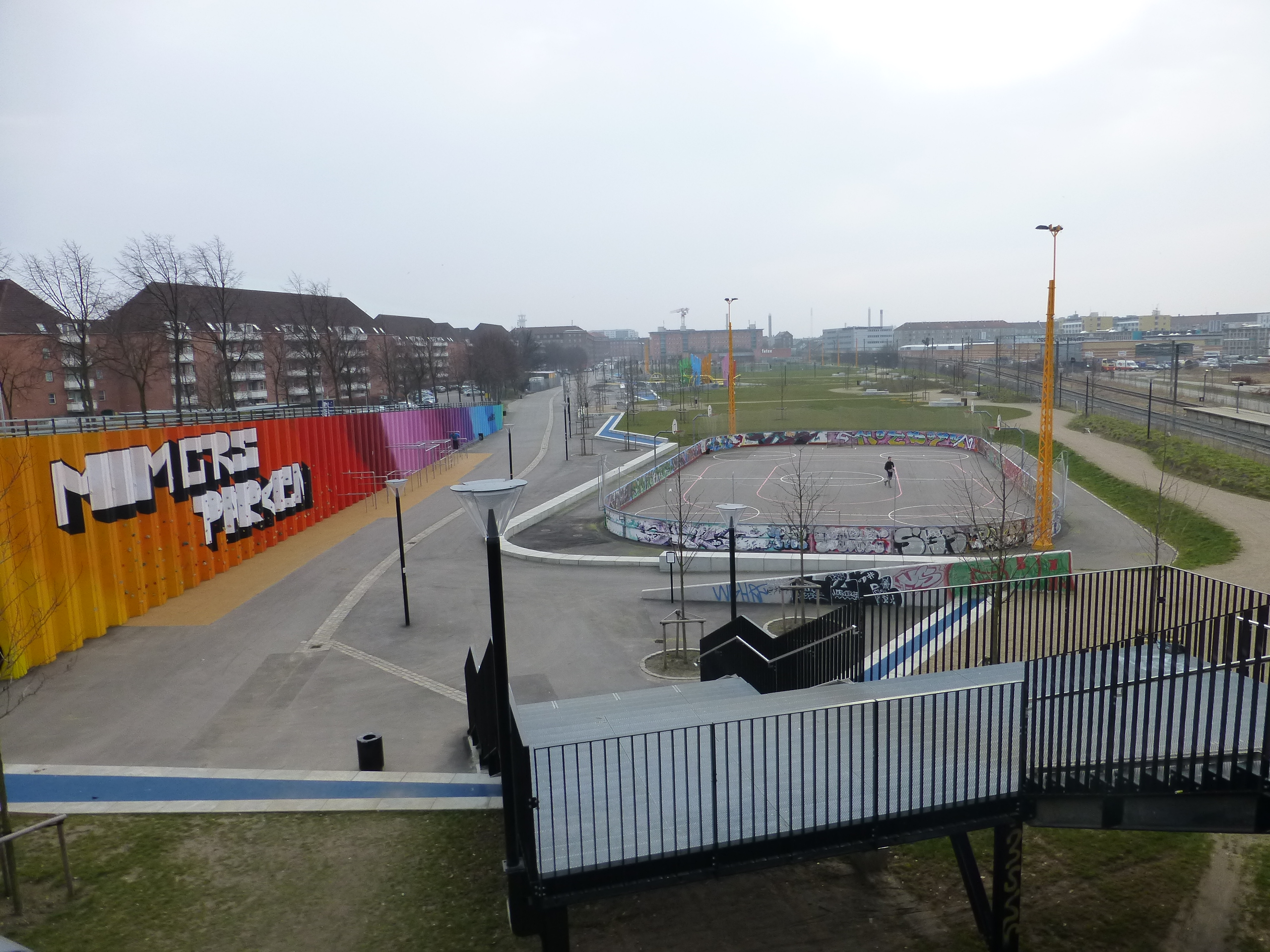 The park Mimersparken seen from Tagensvej in Nørrebro in Copenhagen.